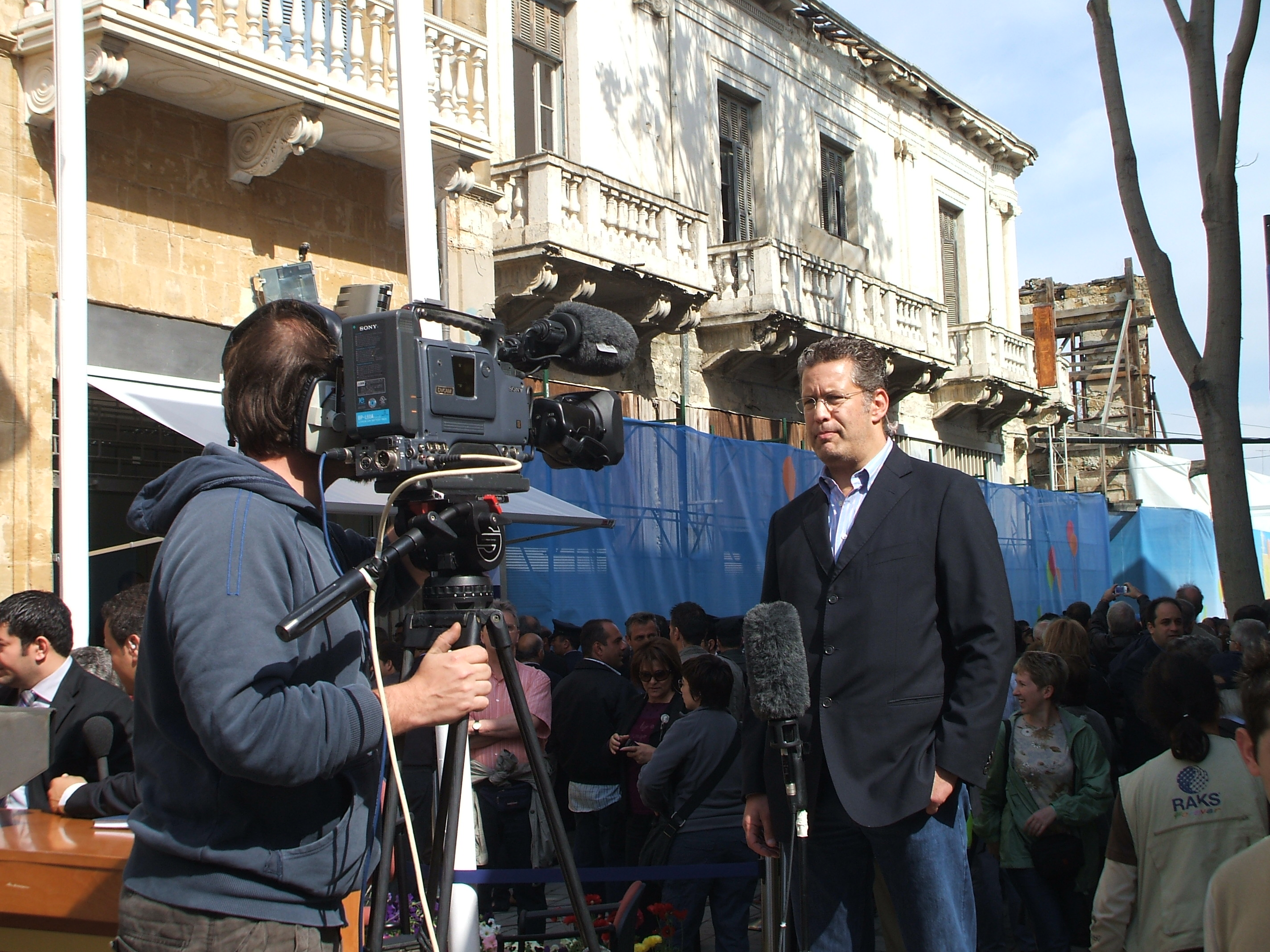 The city of Nicosia, Cyprus, on 3 April 2008, the day when the Green Line at Ledra Street was reopened: Richard C. Schneider, correspondent for ARD, a major public TV station from Germany